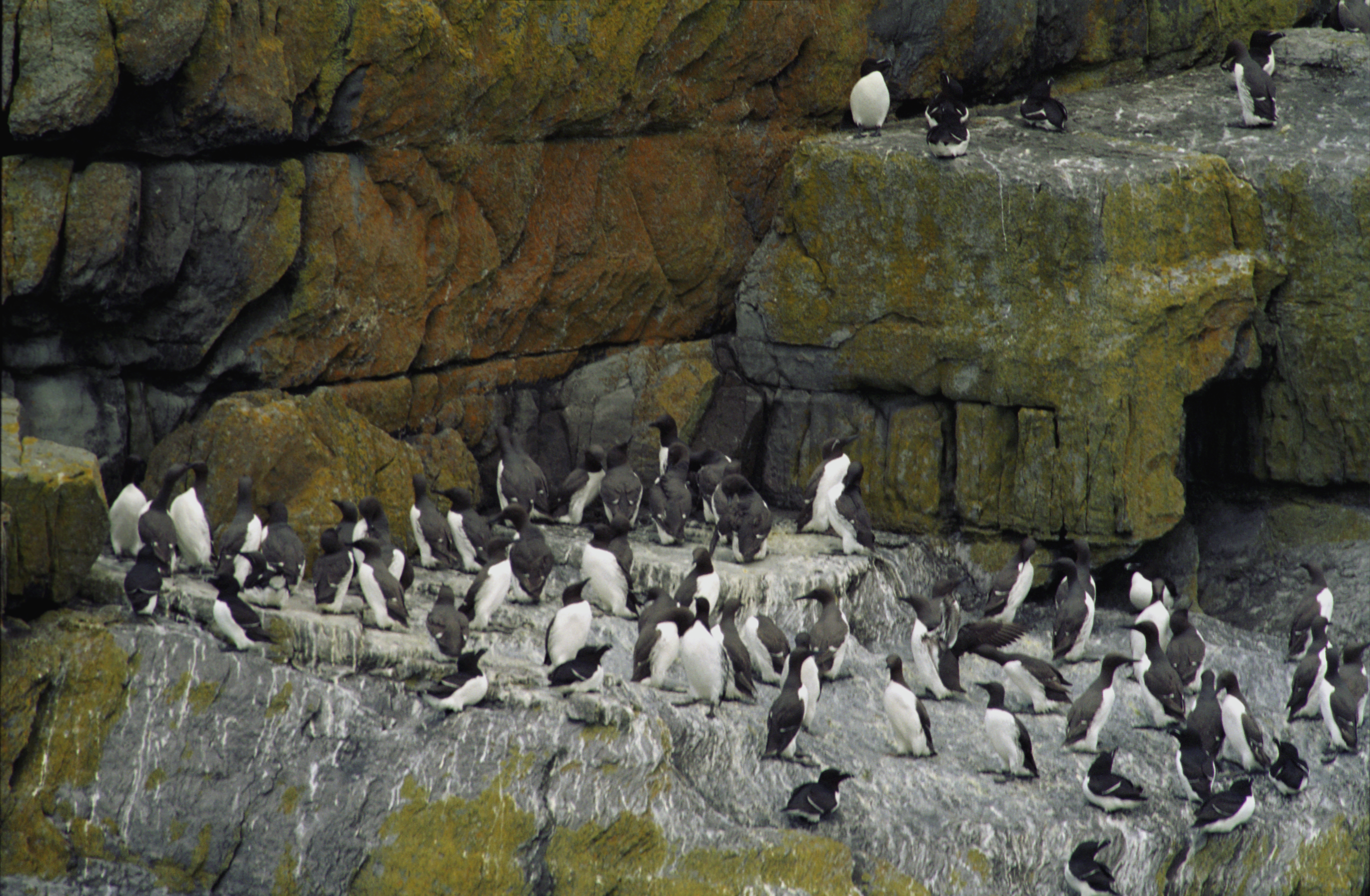 The Skellig Michael with mixed Razorbill Alca torda and Common Guillemot Uria aalge colony